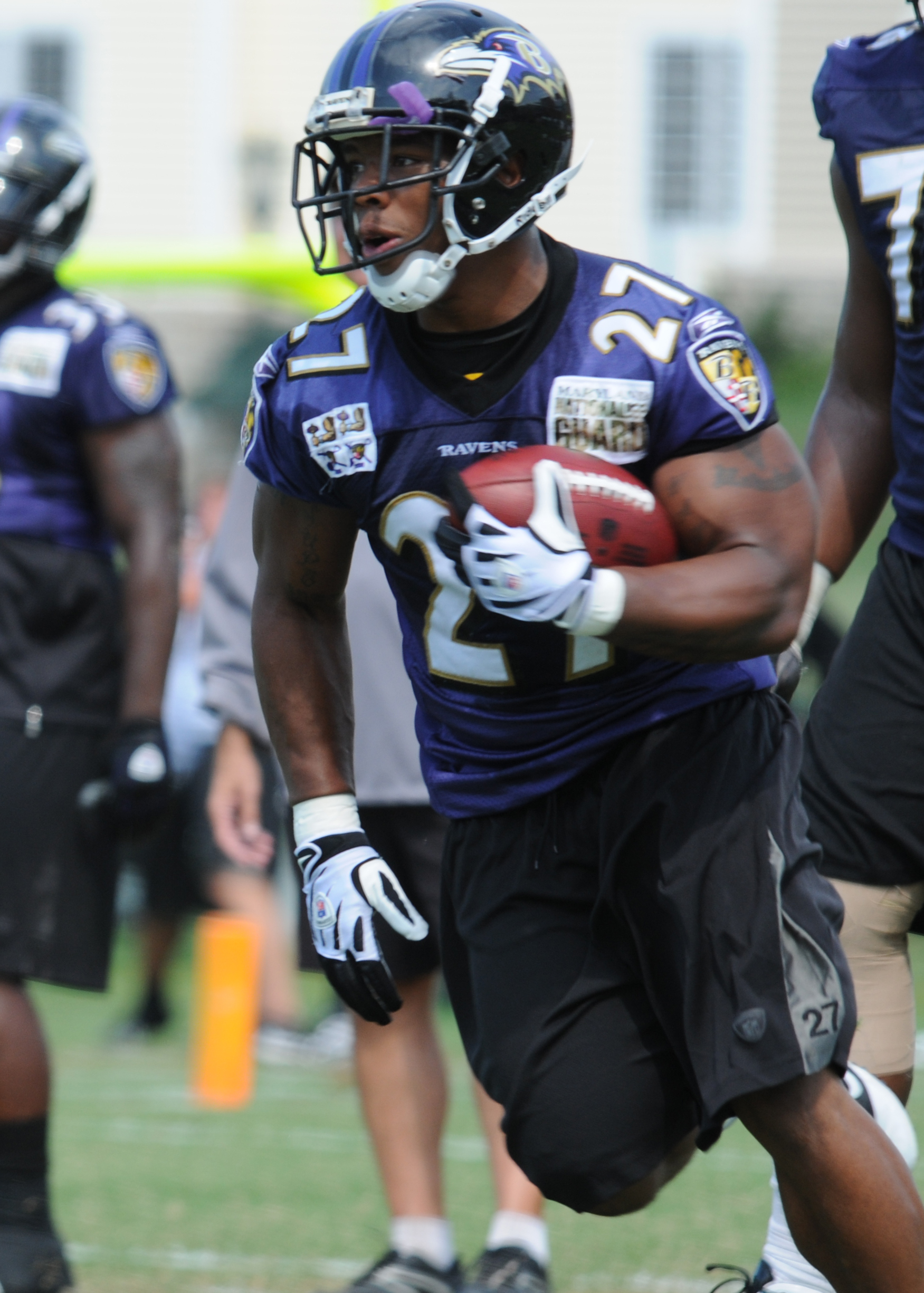 Baltimore Ravens running back Ray Rice shows his support of the members of the U.S. Armed Forces by wearing a Maryland National Guard patch during training camp at McDaniel College, Westminster Md., August 17, 2010.